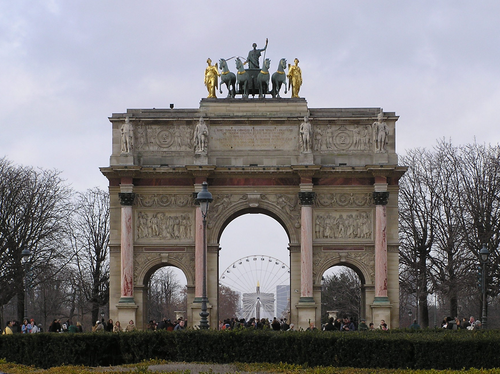 The Arc de Triomphe du Carrousel seen from the Louvre. Several monument of the axe historique can be seen in the background.